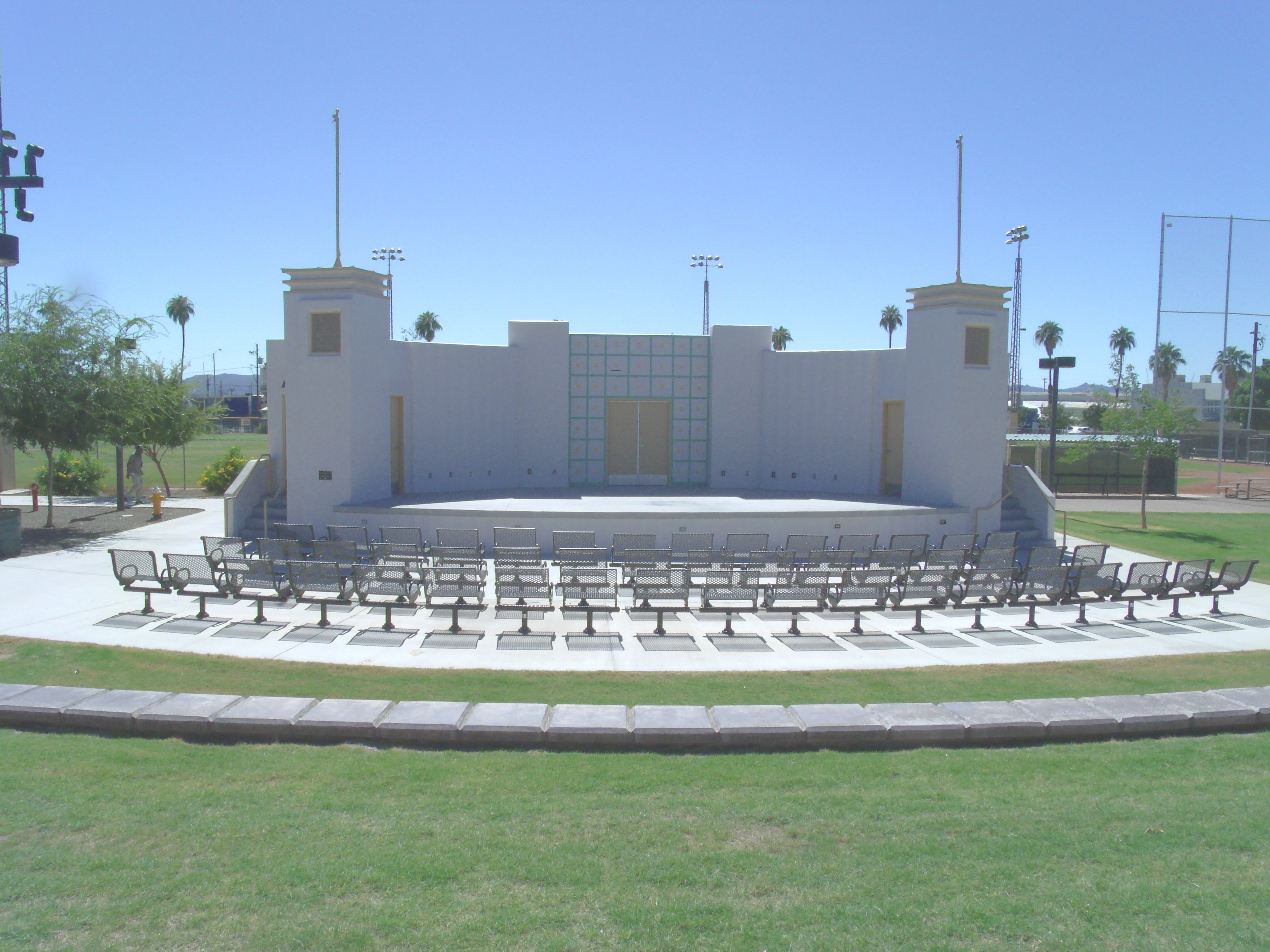 The Geogie M. & Calvin C. Goode Bandshell was built in 1945 and is located in Eastlake Park at 1549 E. Jefferson St. in Phoenix, Az. In 1948 African American activist Claudia Jones spoke from the bandshell to a crowd of 1,000 people at Eastlake Park about equal rights for African Americans. The bandshell is named after African-American Geogie M. Goode, an author, educator and activist. She was the wife of Calvin C. Goode, who served a total of twenty-two years, as a representative to the Phoenix, Arizona City Council. The bandshell is listed in the Phoenix Historic Property Register.